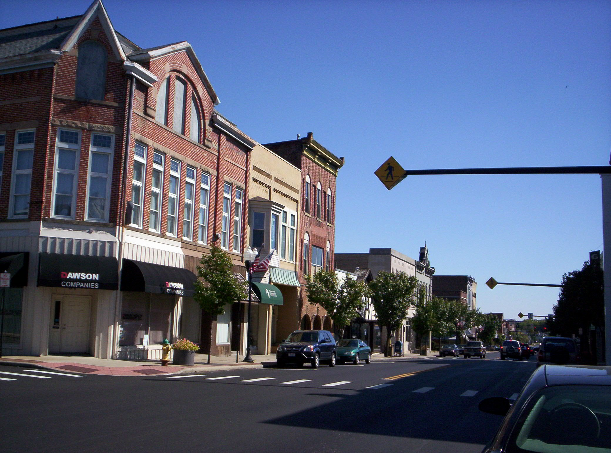 A view of downtown Ashland, Ohio on East Main Street.